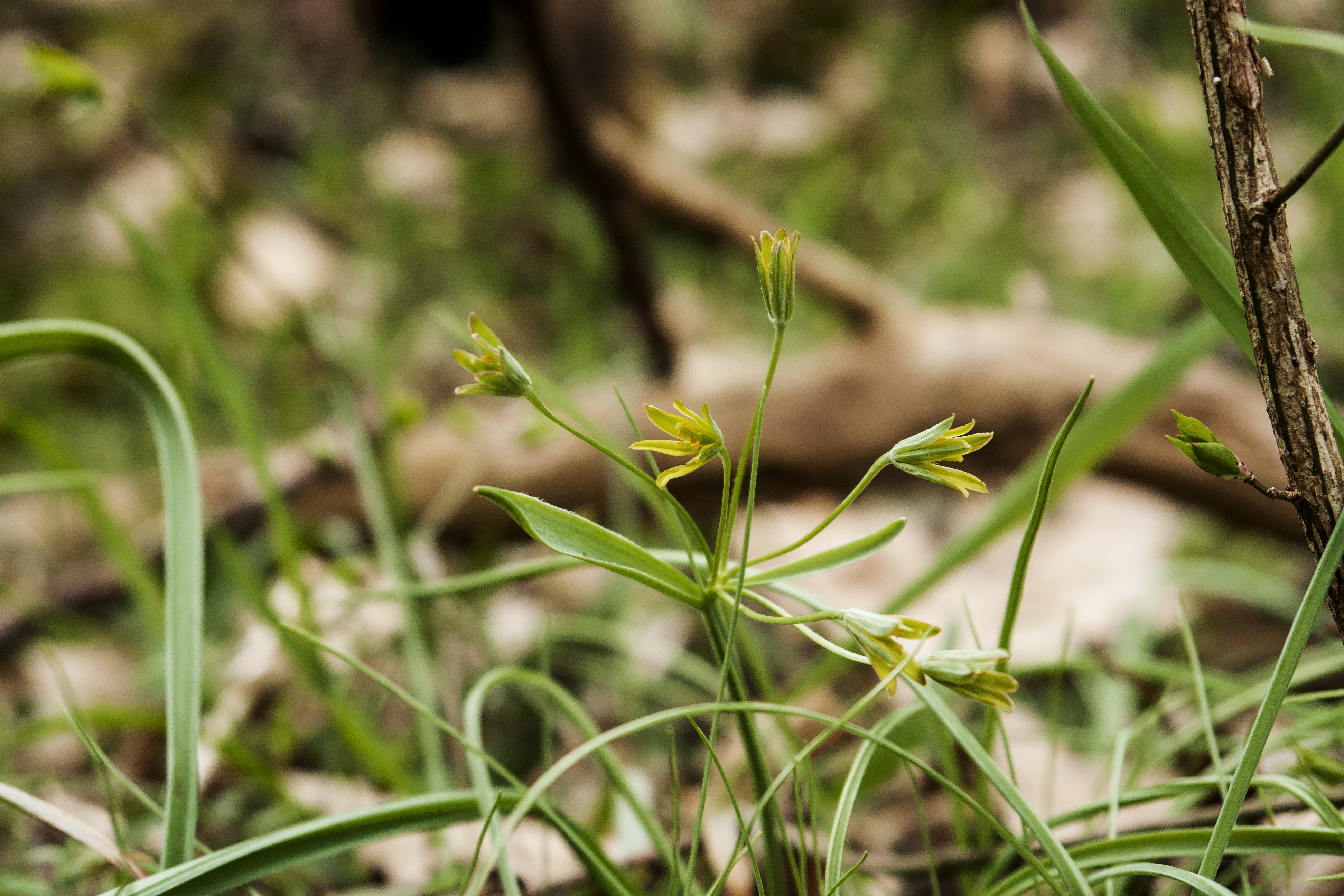 Gagea hiensis